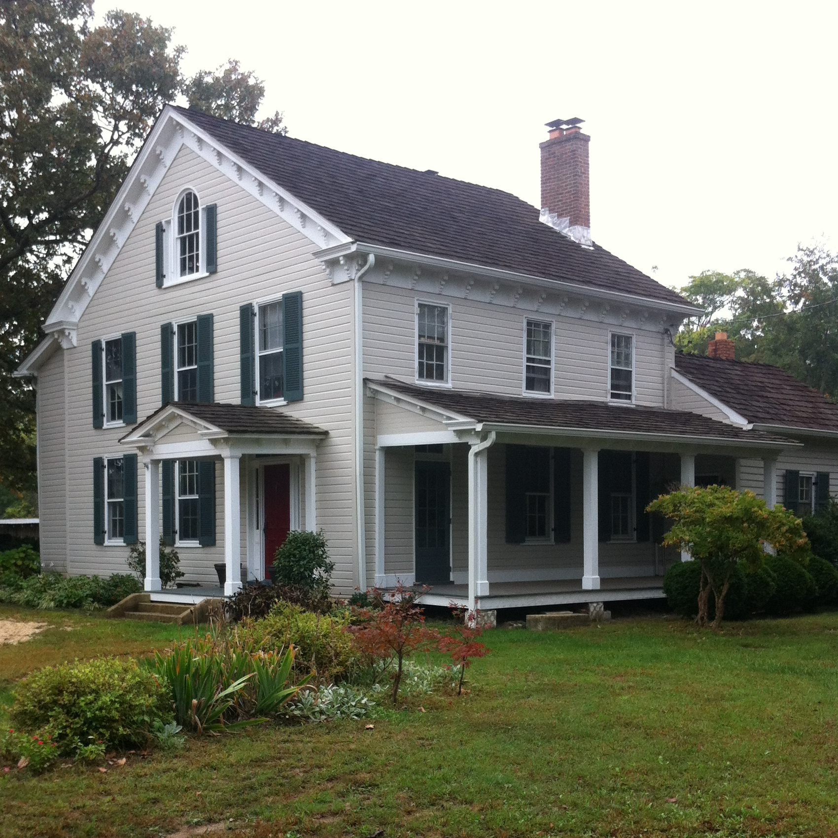 Saint Mary's Rectory, Aquasco, MD Oct 2012 (post-renovation)